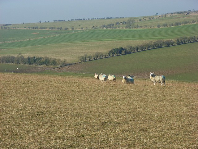 Parsonage Down Grazing by sheep and cattle helps to maintain the flower-rich chalk grassland habitat within the nature reserve. These sheep are above the dry valley that runs along the northern boundary of the reserve. Beyond are arable fields.